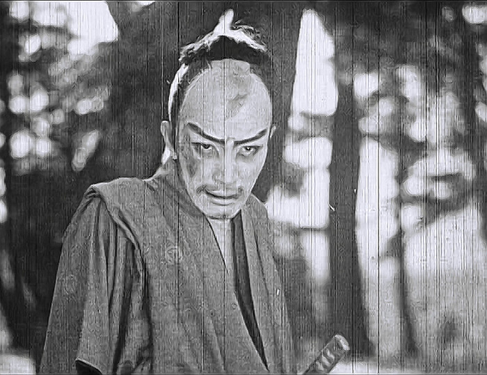 Tsumasaburō Bandō in Gyakuryū (逆流) directed by Buntarō Futagawa - 1924